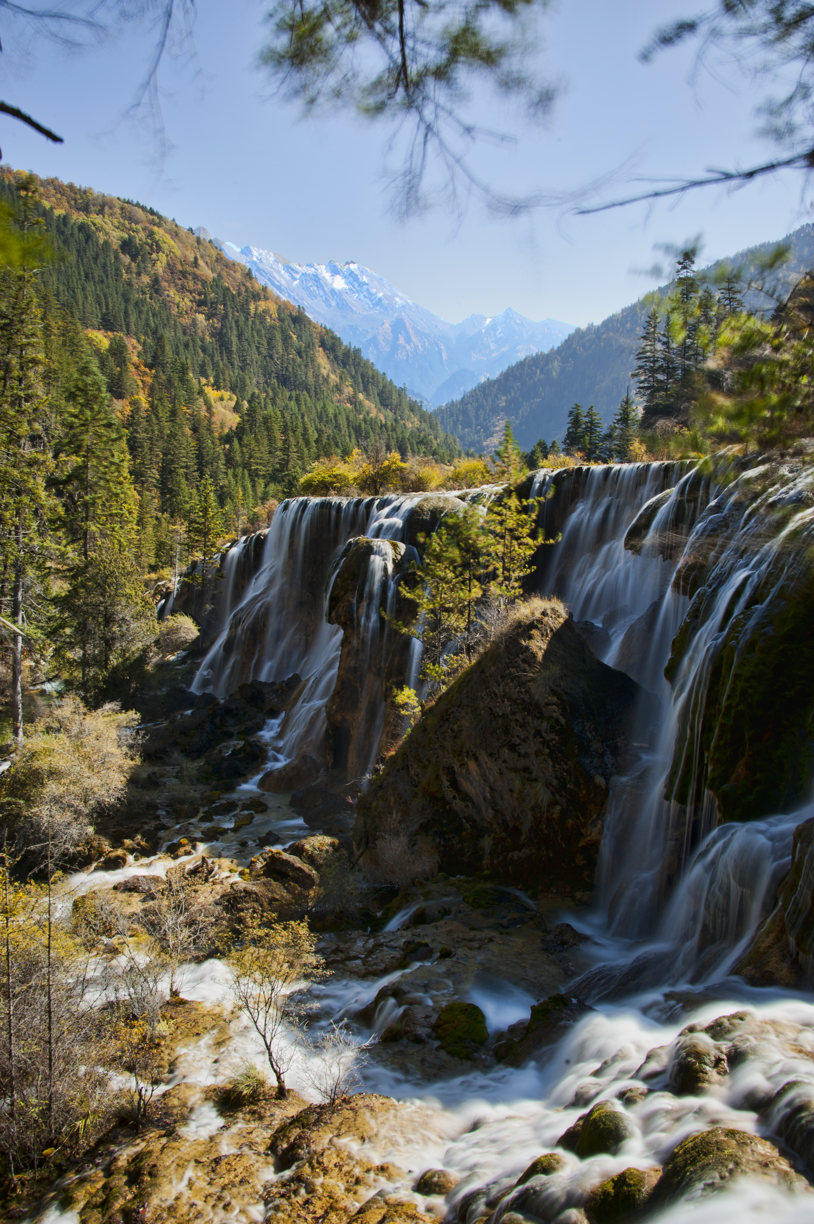 jiuzhaigou valley national park pearl shoals waterfall zhen zhu tan pu bu 珍珠滩, Zhēnzhū Tān sichuan china autumn fall 2011 rize valley 日则沟